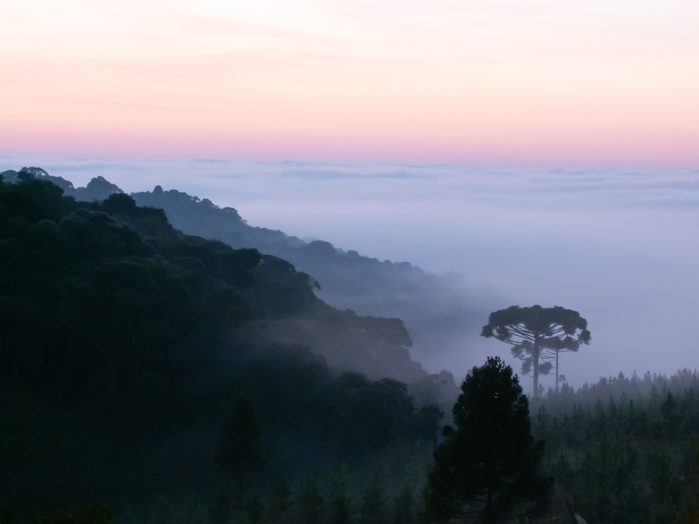 Araucaria angustifolia - Brazilian pine looking over a valley covered with fog early in the morning. The brazilian pines are surrounded by a Pinus elliottii plantation, a species of fast-growing pine native to North America.